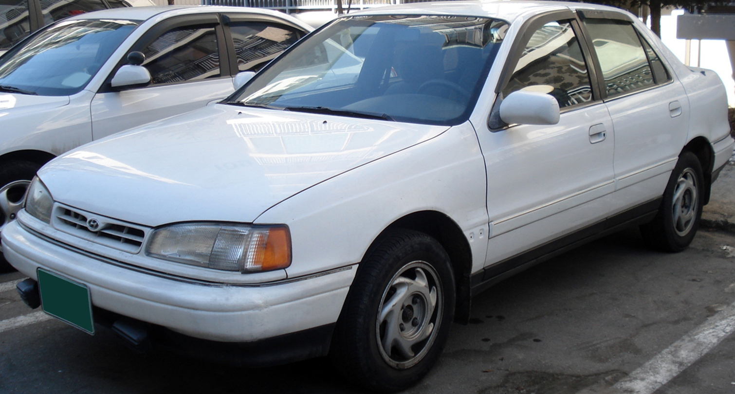 Hyundai Elantra